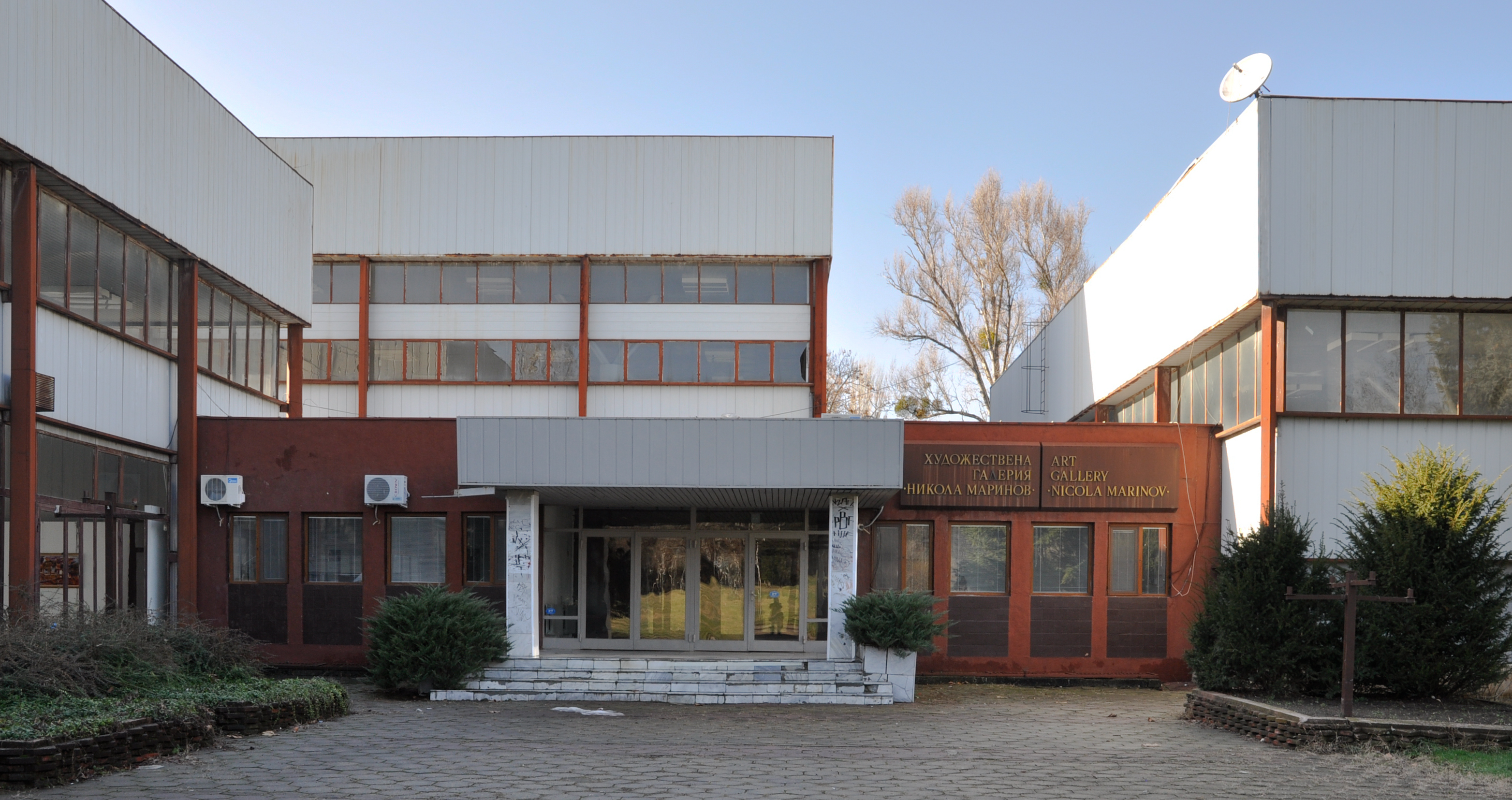 Nikola Marinov Gallery in Targovishte.